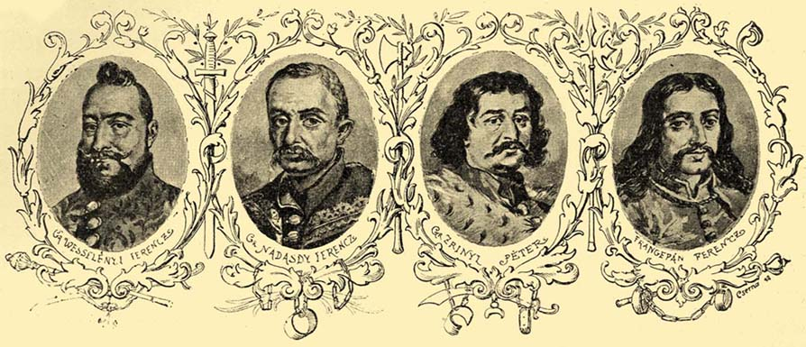 Noblemen of Hungary.